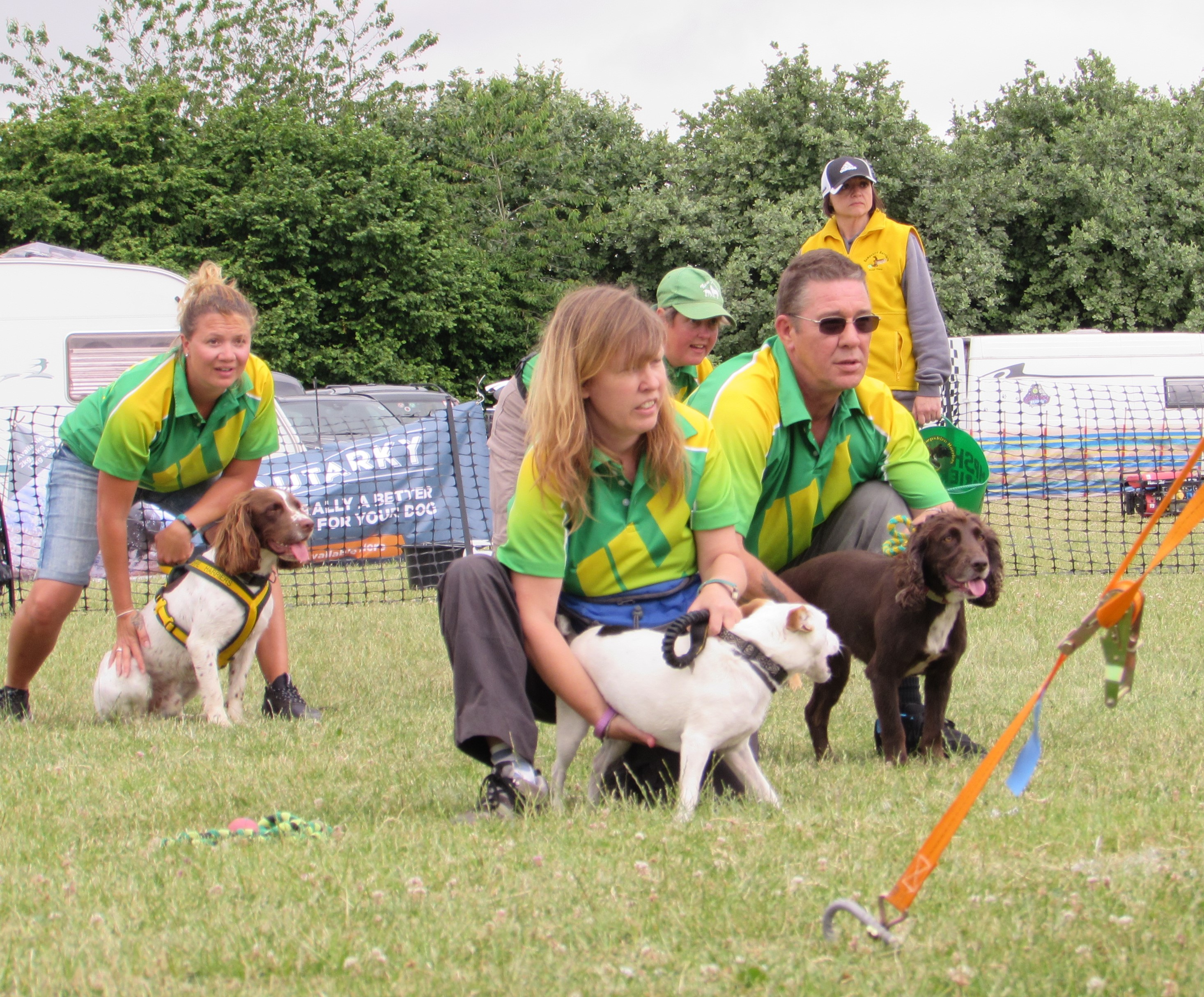 Dogs lining up to start race.